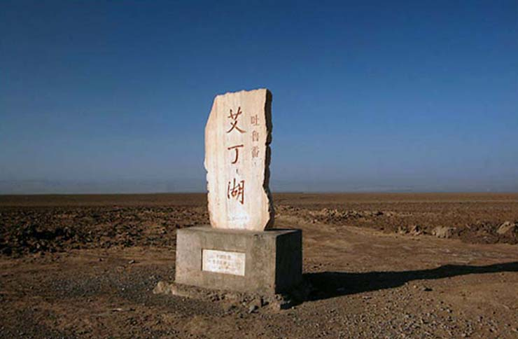 Aydingkol stele at the former lakesite